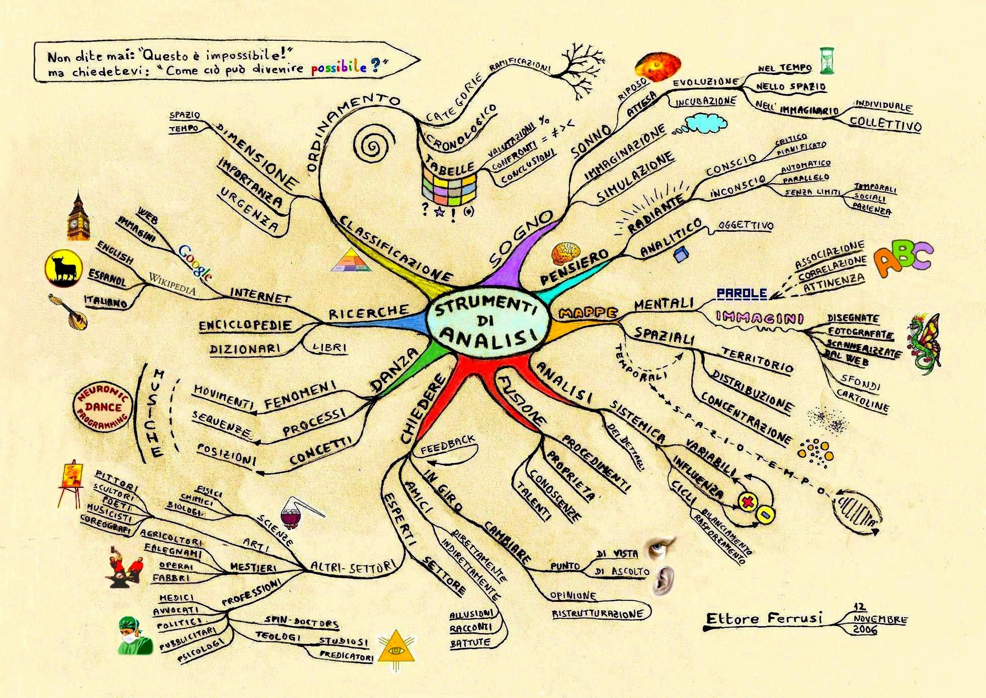 Example of a mind map on the topic "Tools for Analysis"